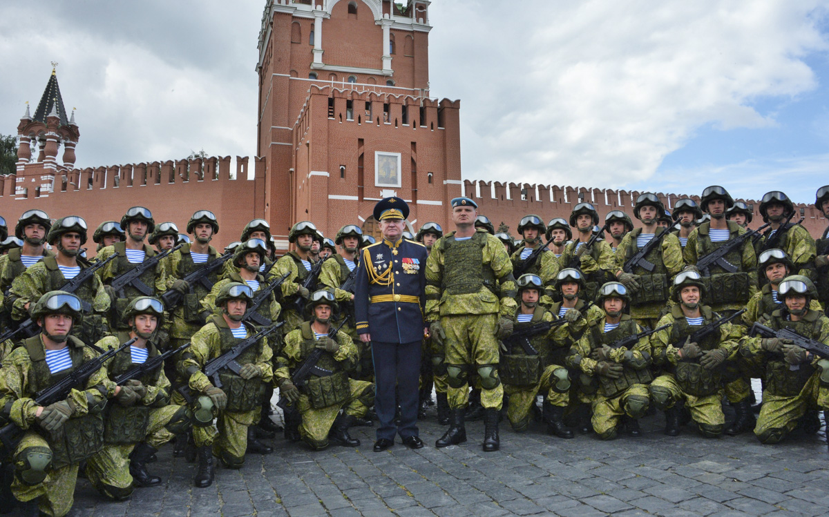 По всей стране прошли праздничные мероприятия, посвященные 90-й годовщине образования Воздушно-десантных войск